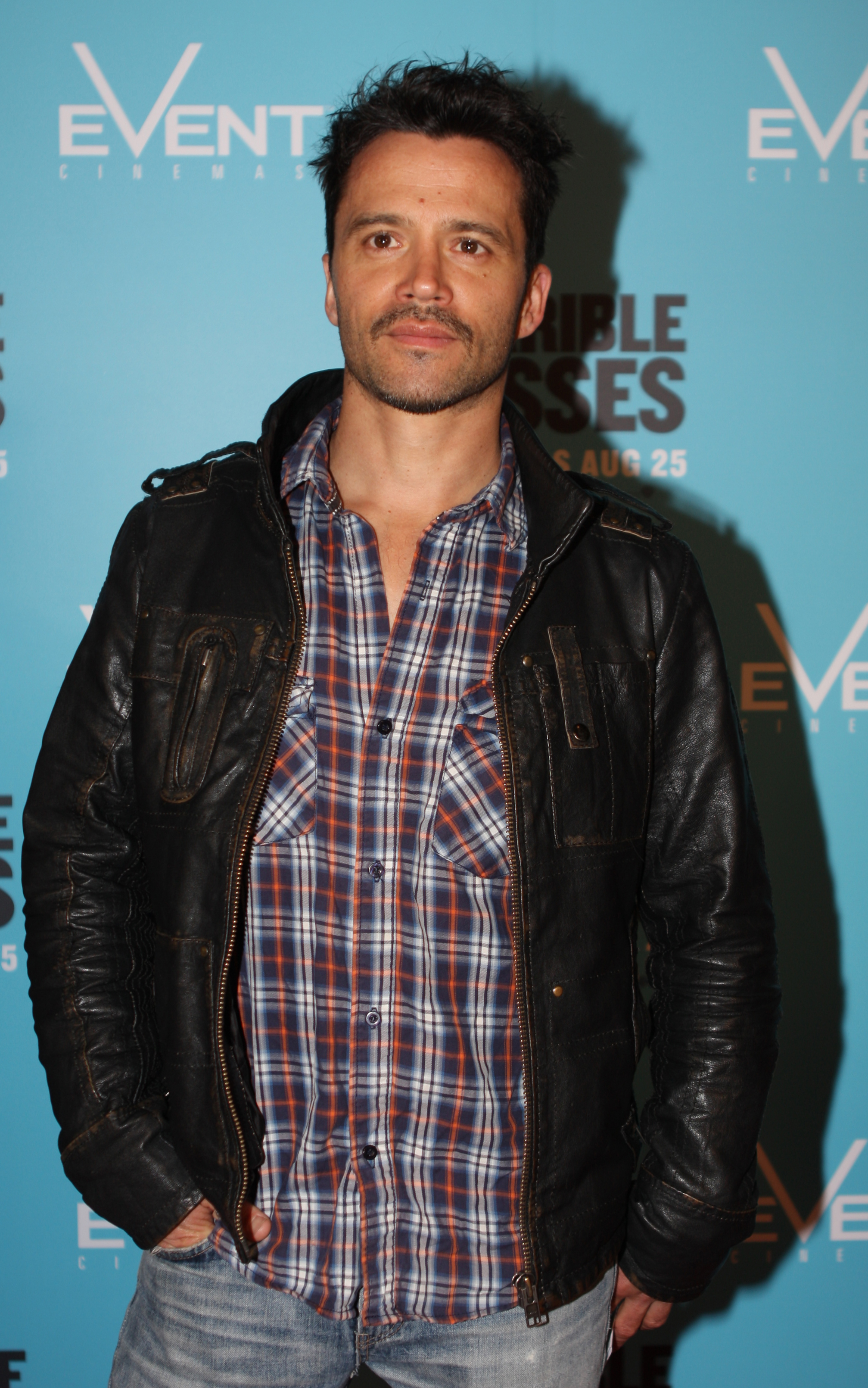 Damian Walshe-Howling at the film premiere of Horrible Bosses.